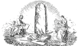 Logo of Svenska fornskriftsällskapet (Swedish Society of Ancient Writing).